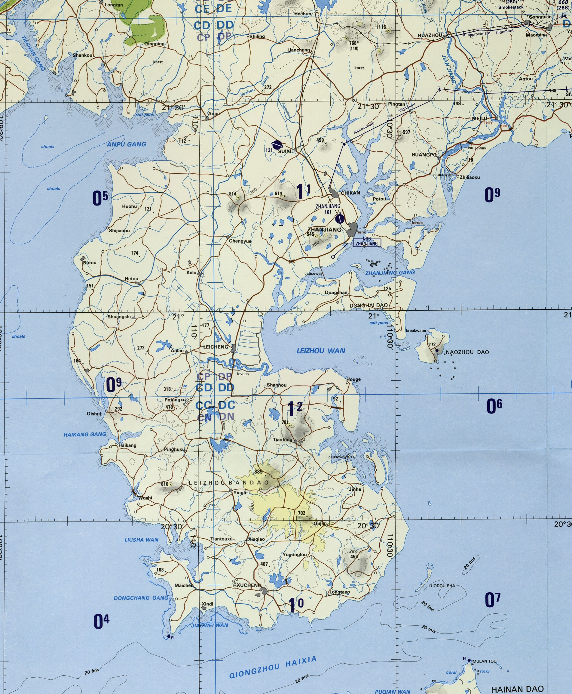 Topographical map of Leizhou Peninsula, Guangdong, China